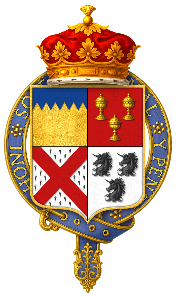 Coat of arms of James Butler, 2nd Duke of Ormonde, KG